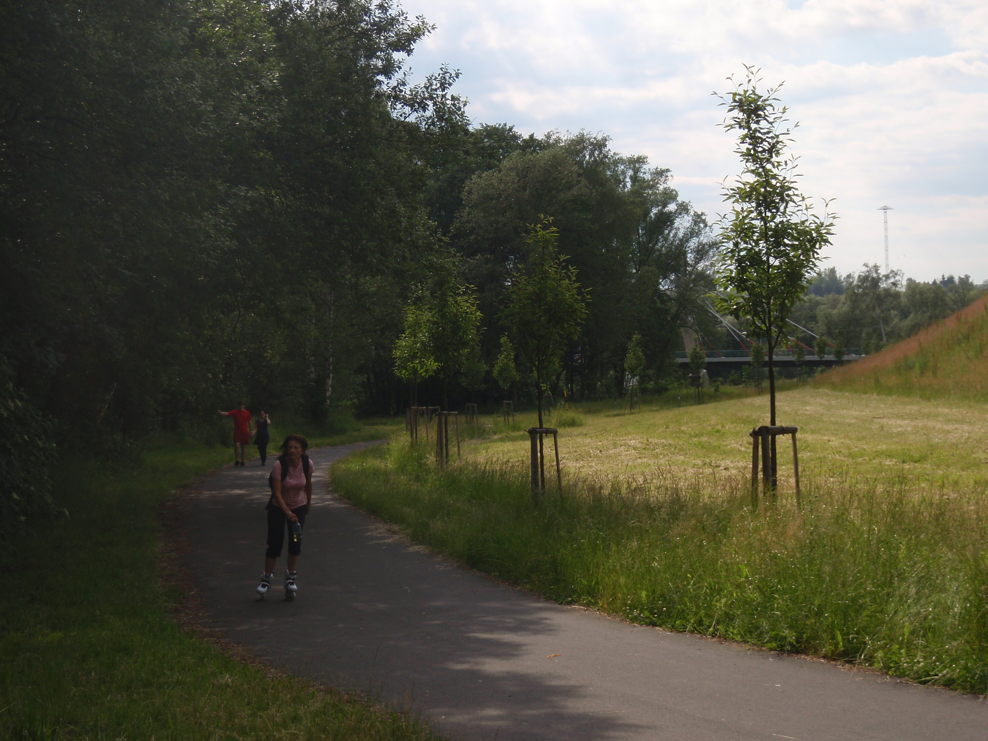 bicycle lane Ohře